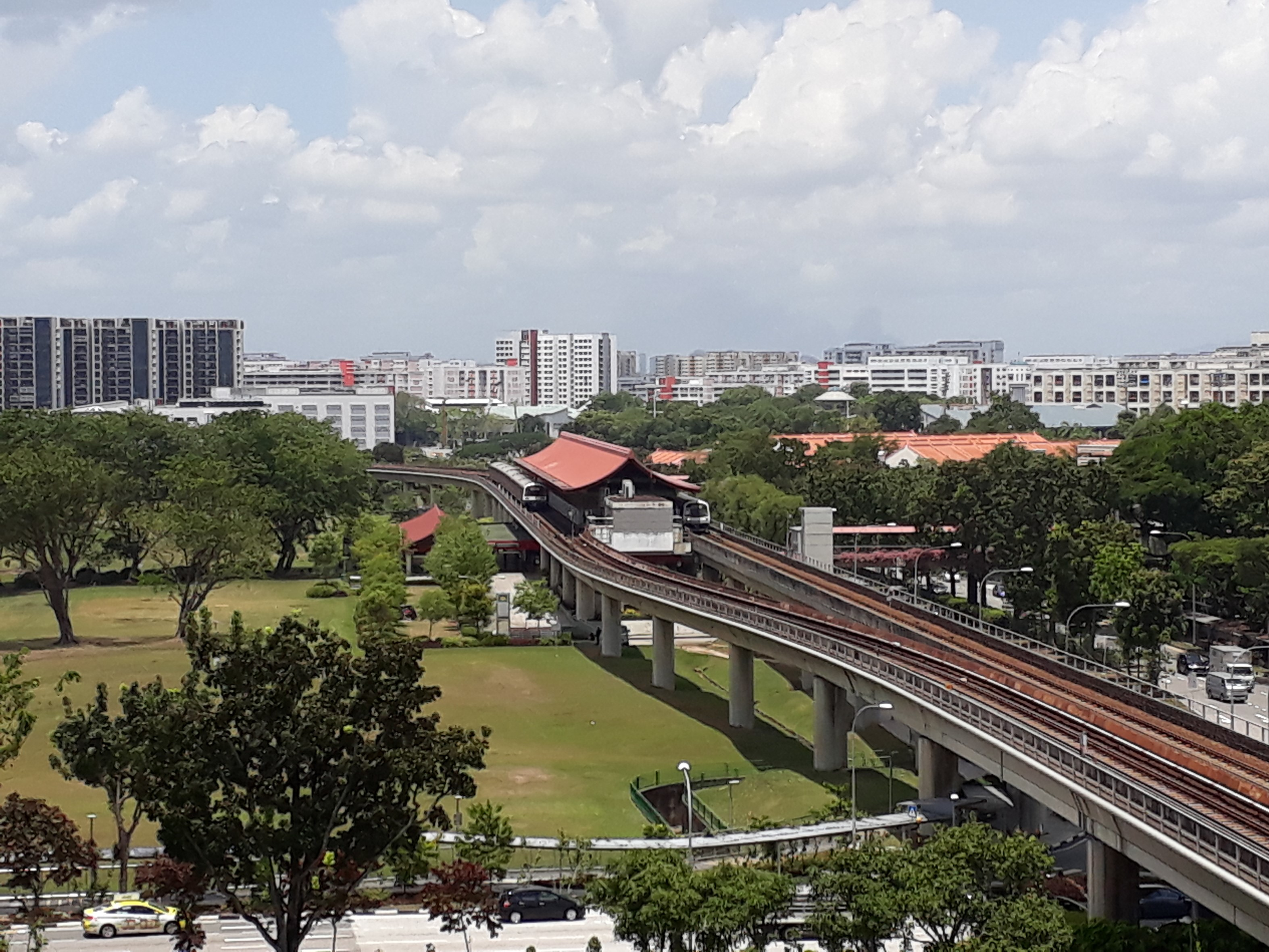 EW25 Chinese Garden bird eye